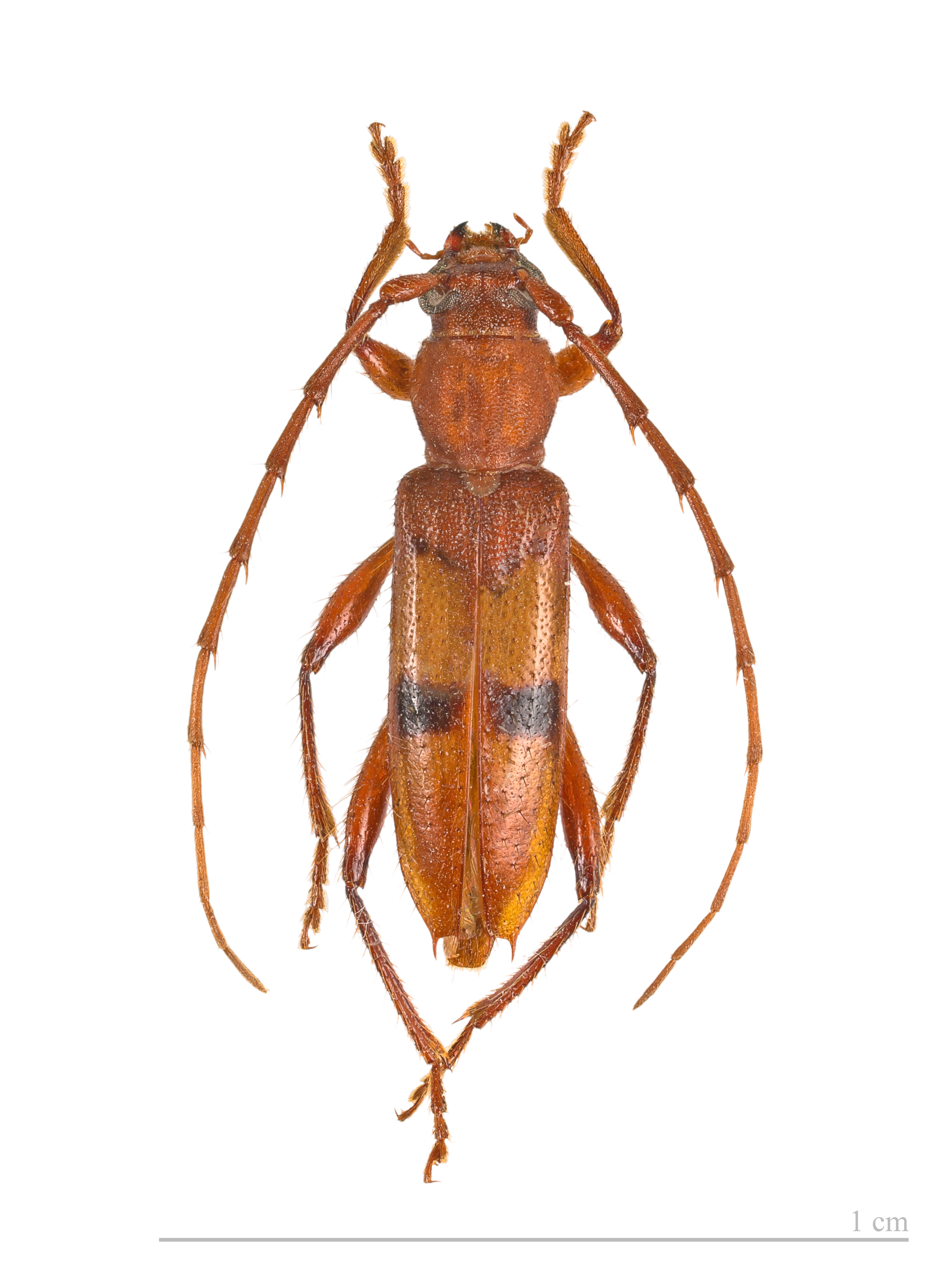 ♀ - Dorsal side Locality : Kaw road, Carbet of National Forests Office, French Guiana.